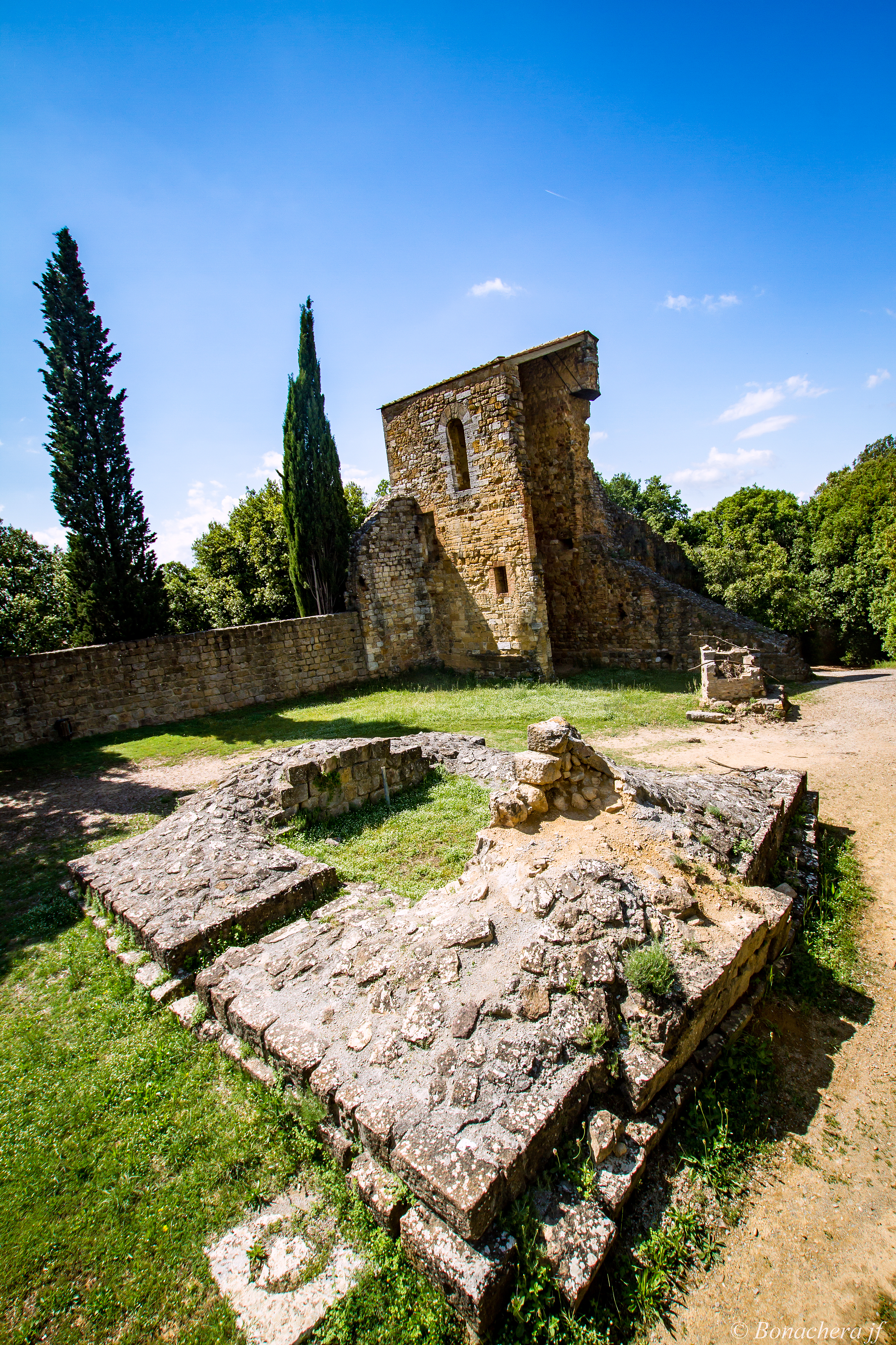 Horti leonini: les restes de la tour médievale